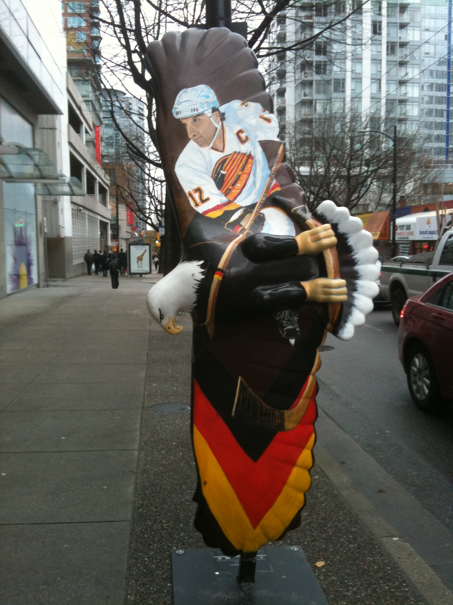 An eagle statue dedicated to former Vancouver Canucks forward Stan Smyl by former Canucks goaltender Richard Brodeur; part of Vancouver's "Eagles in the City" project. The other side of the eagle is decorated with a Trevor Linden mural. Pictured here, it is located at Robson and Seymour in Downtown Vancouver.